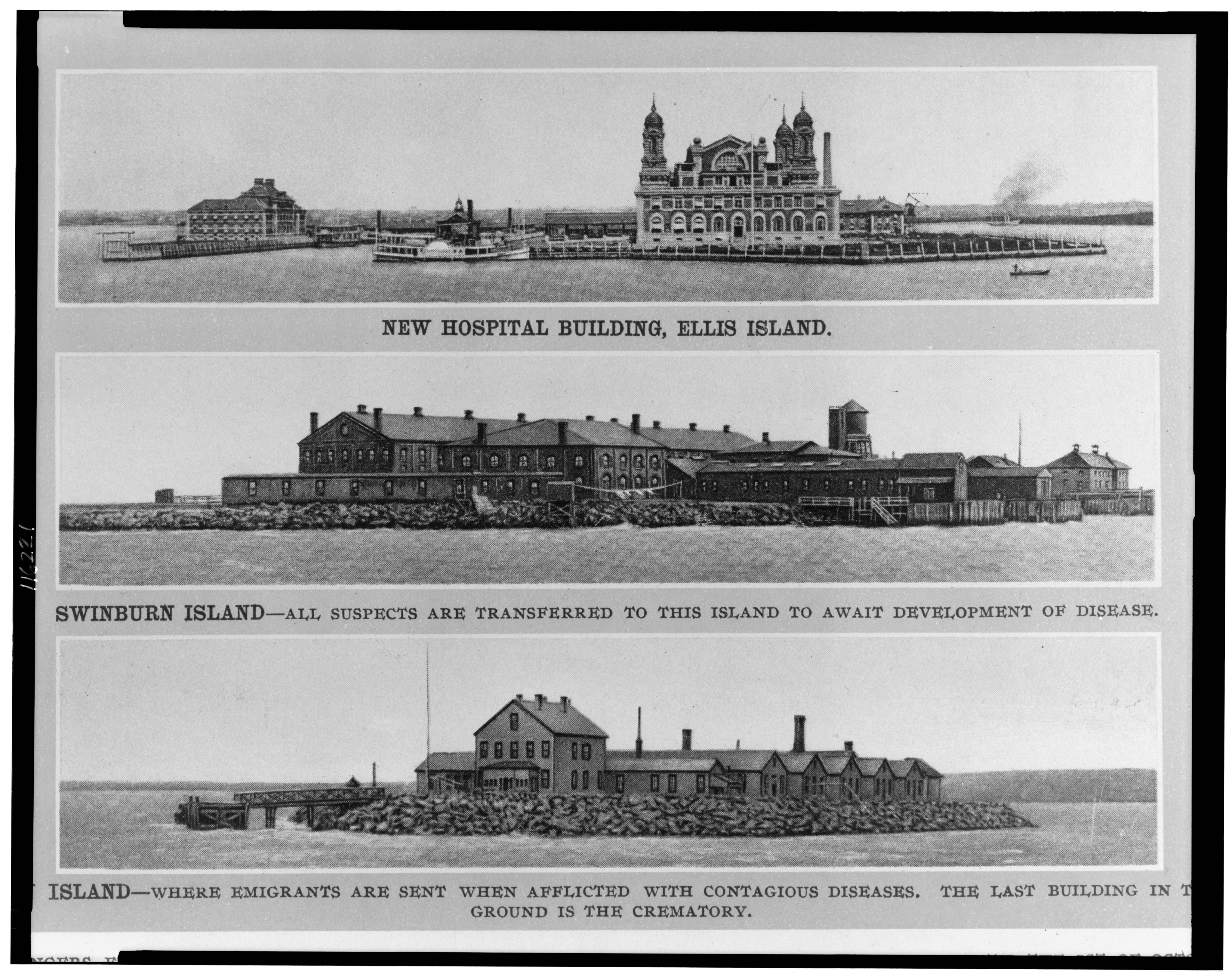 Title: New hospital building, Ellis Island; quarantine buildings on Swinburn Island and Hoffman Island Abstract/medium: 1 photomechanical print : halftone.